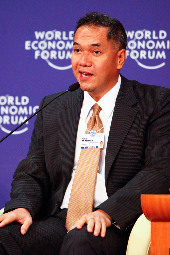 Gita Wirjawan, Chairman, Investment Coordinating Board (BKPM), Indonesia captured during the World Economic Forum on East Asia in Ho Chi Minch City, Vietnam, June 7, 2010.